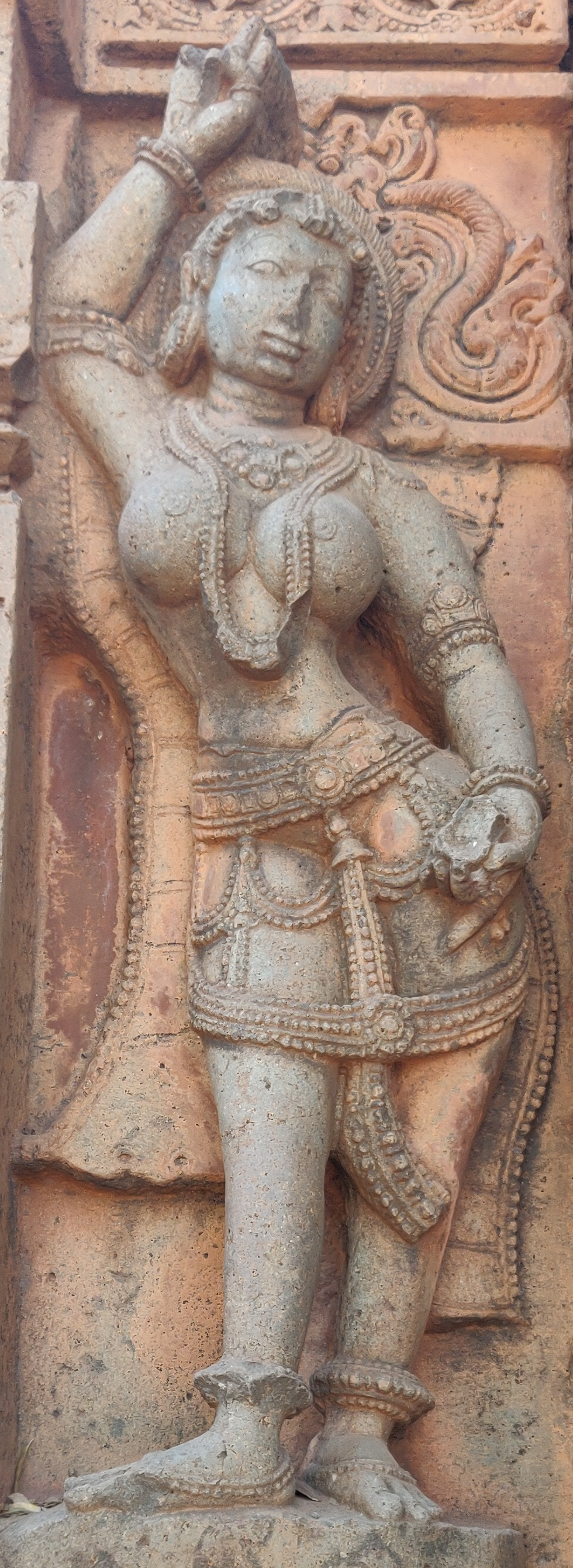 Pictures clicked in Iswara temple in Jalasangvi, Humnabad town, Bidar district, Karnataka. The temple is also known as Jalasangvi temple, Kamalishwara temple, Kamaleshwara temple, Kalleswara temple. The temple is of Chalukyan style. Built around 1100 AD with stone. Salabhanjika at the Iswara temple Jalasangvi